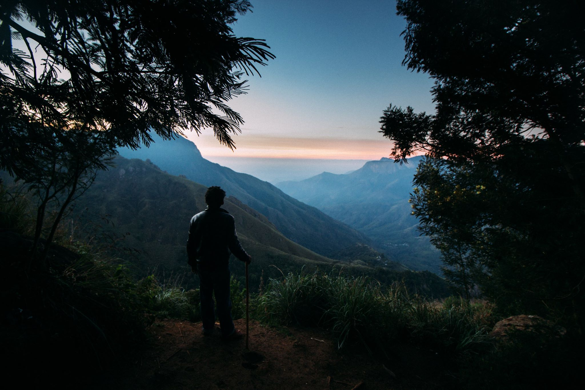 Sunrise an Top Station, Munnar.